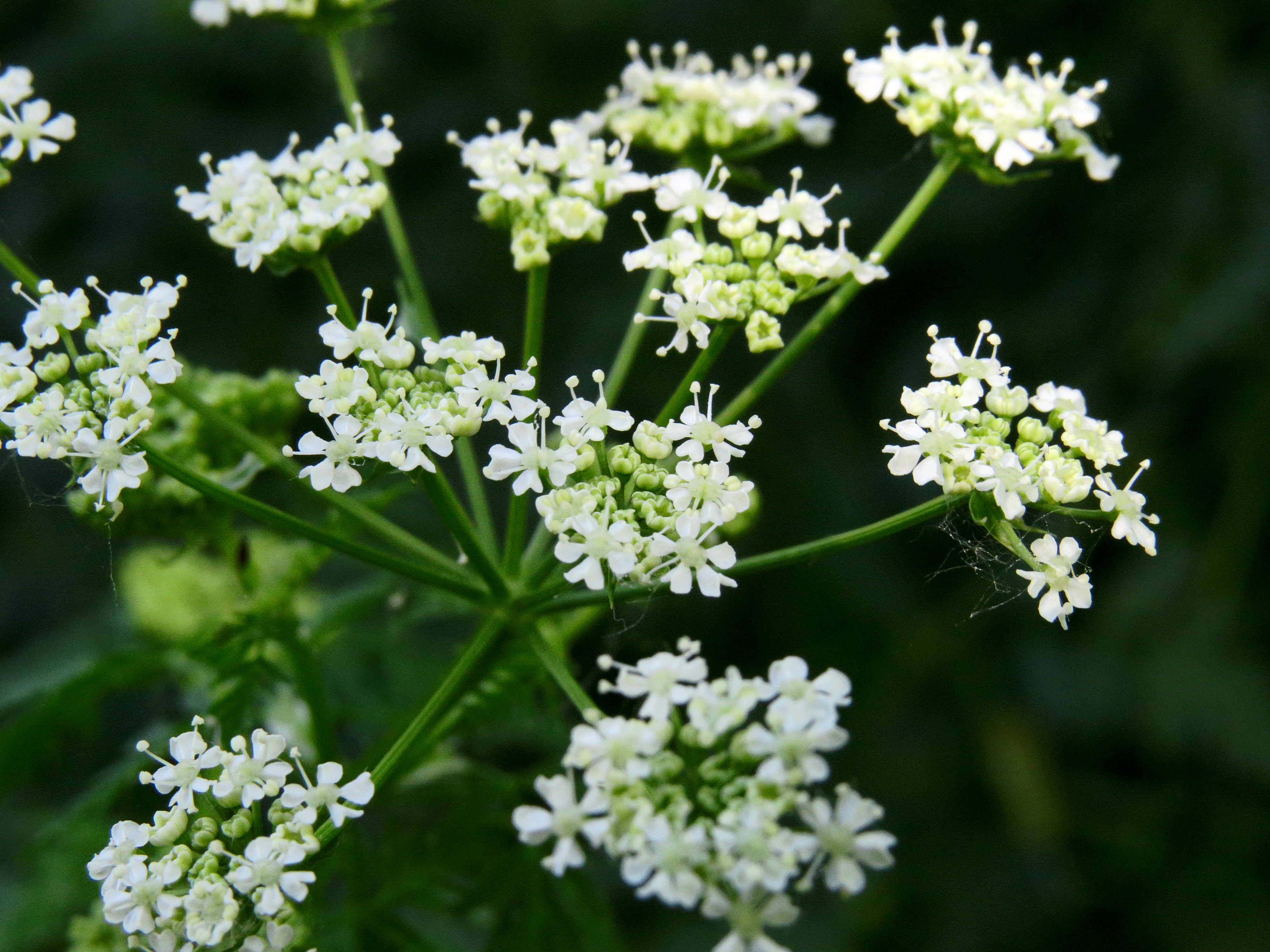 Conium maculatum in Dolobetsky island, Kiev, Ukraine